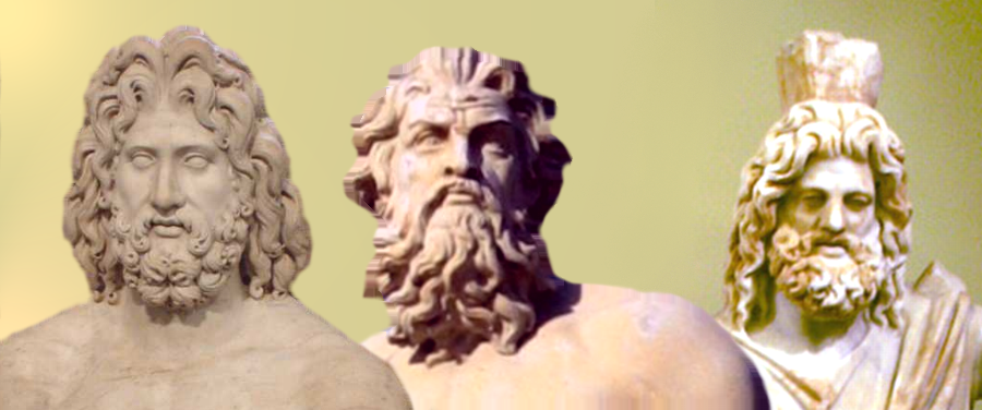 Zeus, Poseidon and Hades -- gods of heavens, sea, and underworld